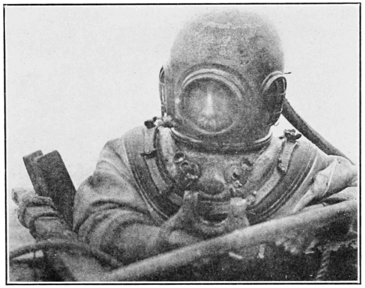 In diving suit ready for the descent